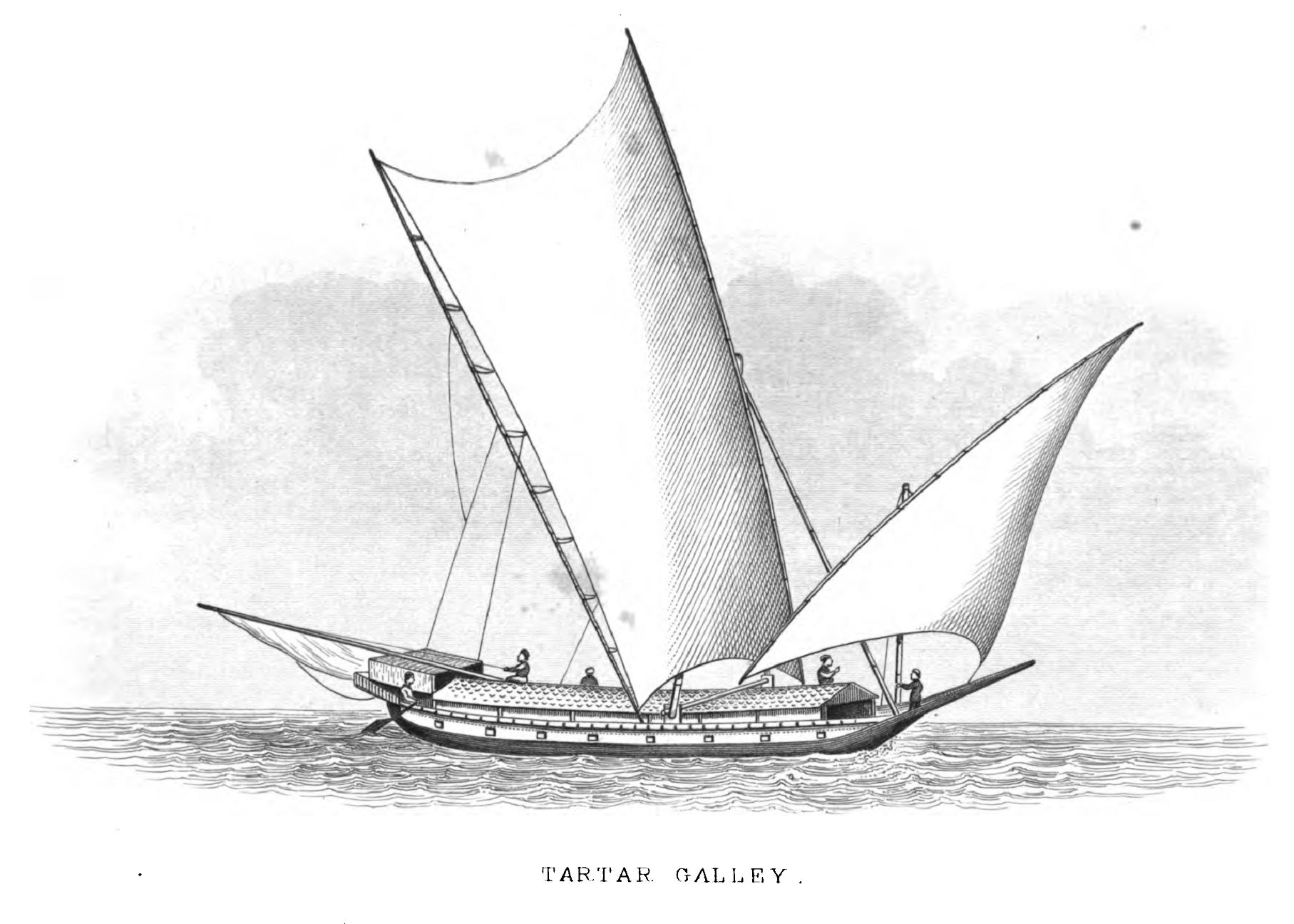 The Tartar of Captain Thomas Forrest in his "Voyage to New Guinea" Actually a Garay warship from Sulu